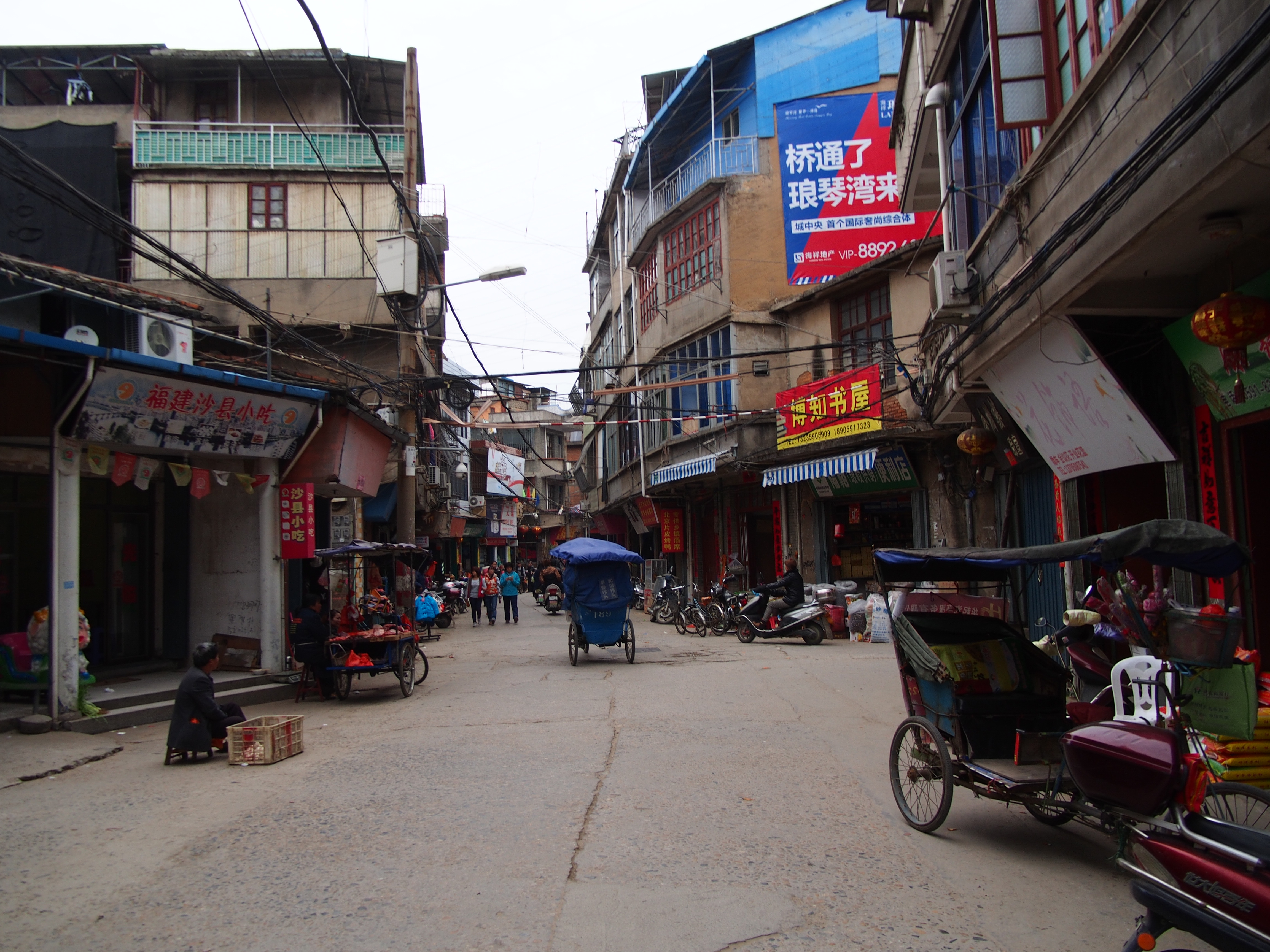 琅岐镇 - Langqi Town - 2014.02